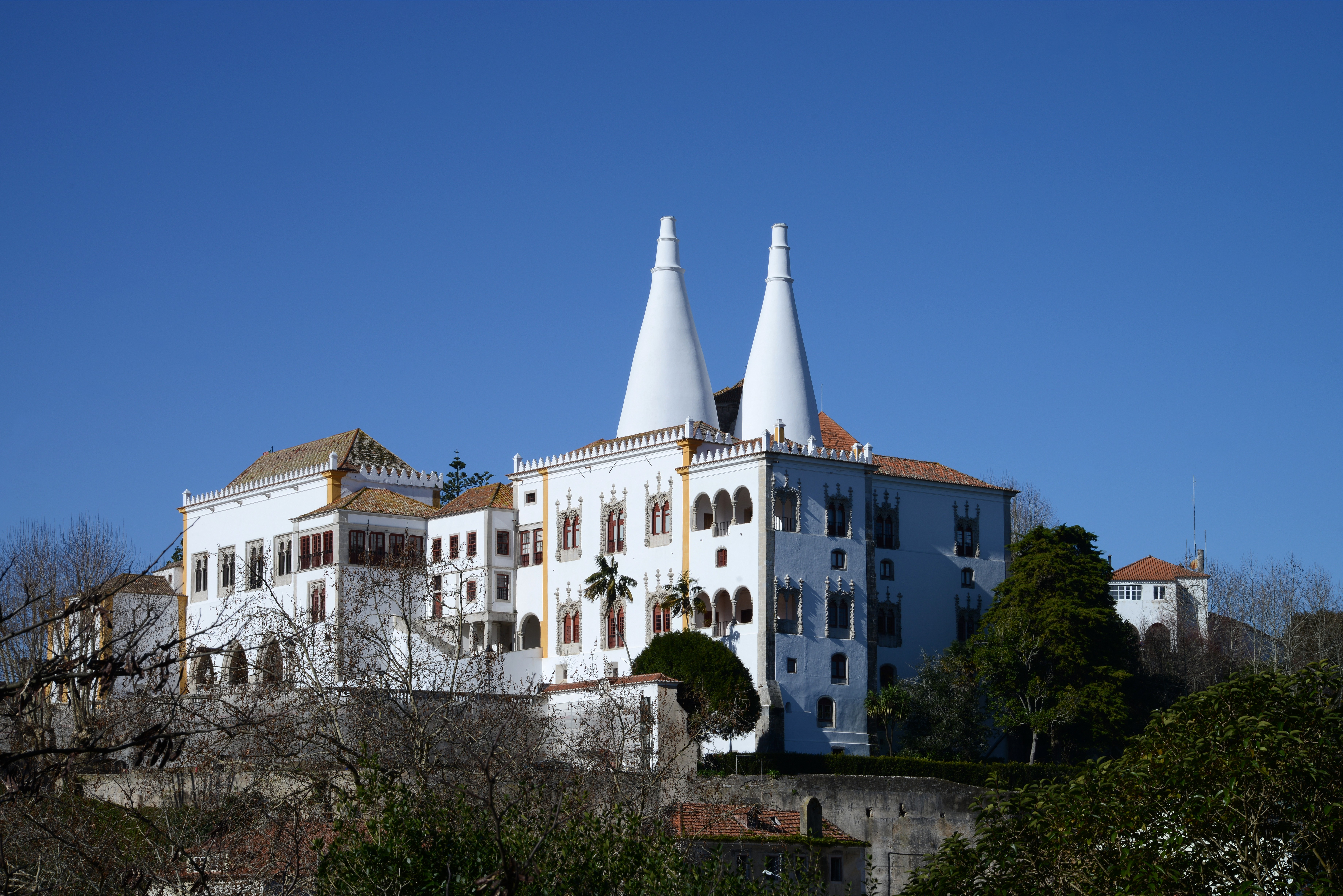 The National Palace of Sintra, Portugal, view from east.